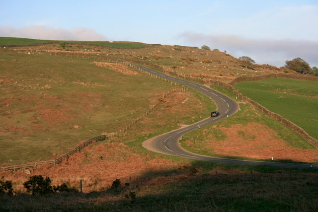 Road to Commondale Climbing out of Sleddale Beck up to Wayworth Moor.